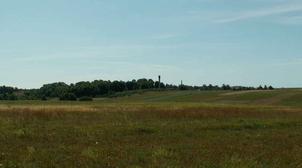 Laukžemė, Kretinga district, Lithuania